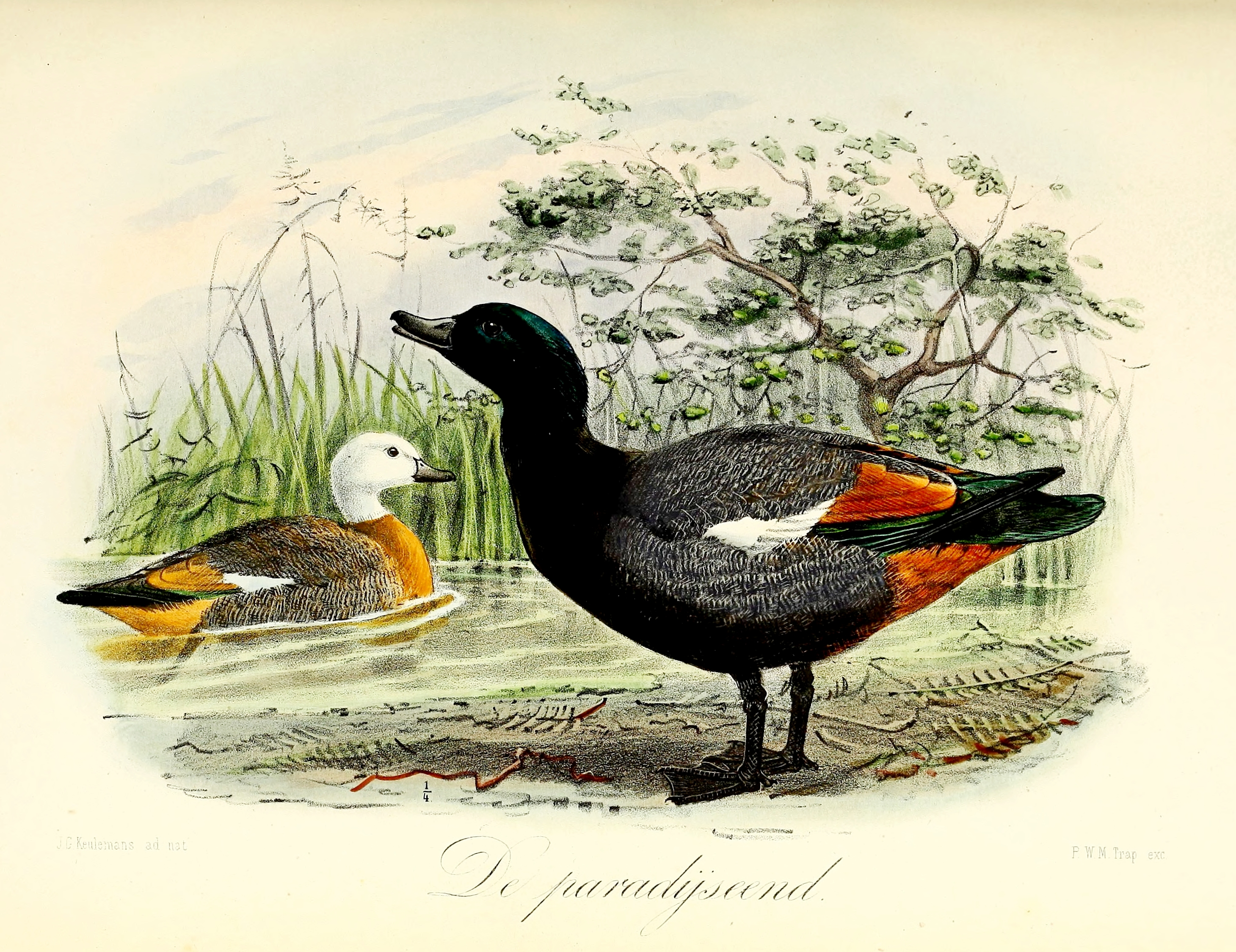 « Tadorna variegata » = Tadorna variegata (Paradise shelduck) - male and female